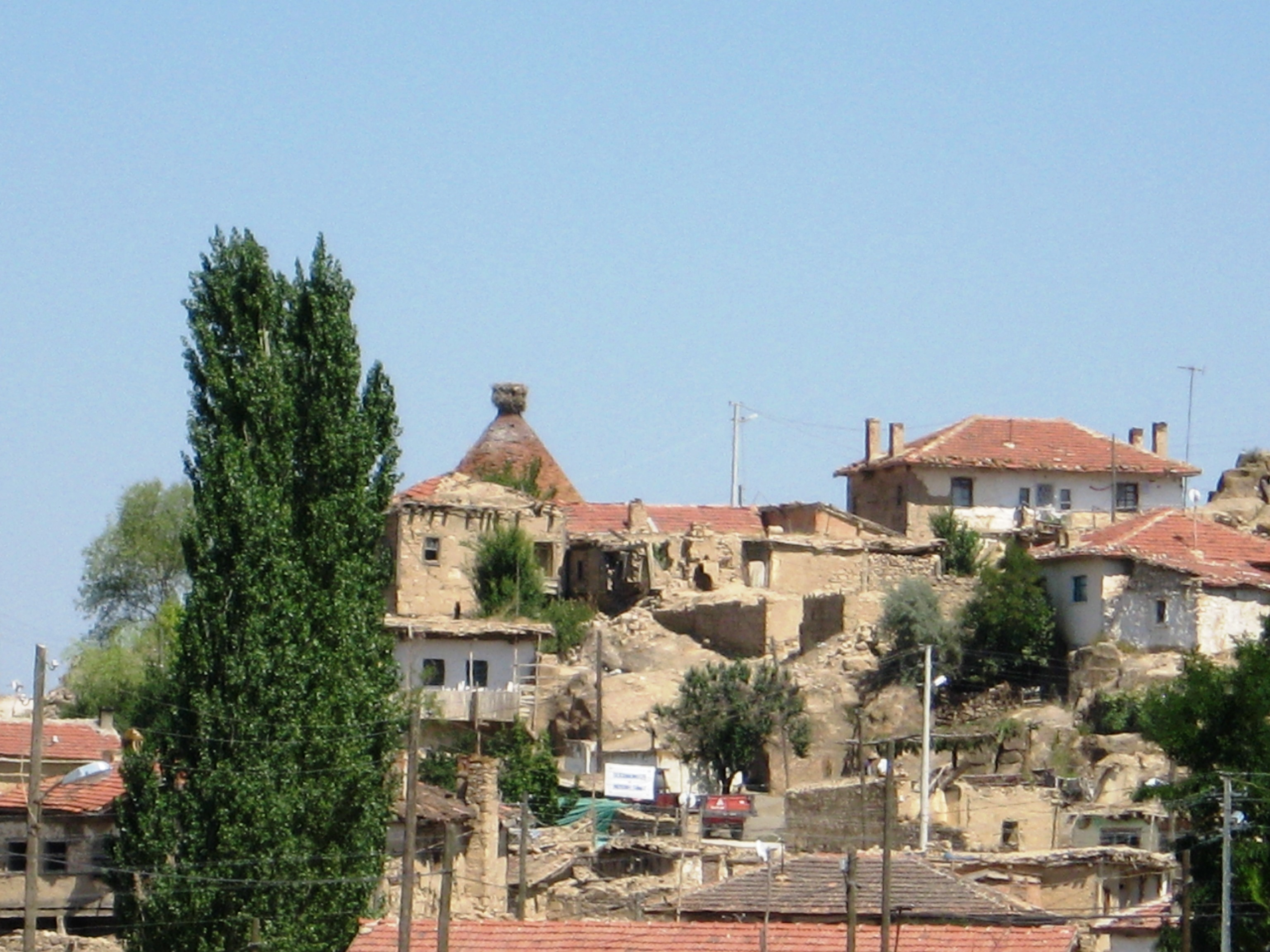 Kumbet district, Seyitgazi - Eskisehir.